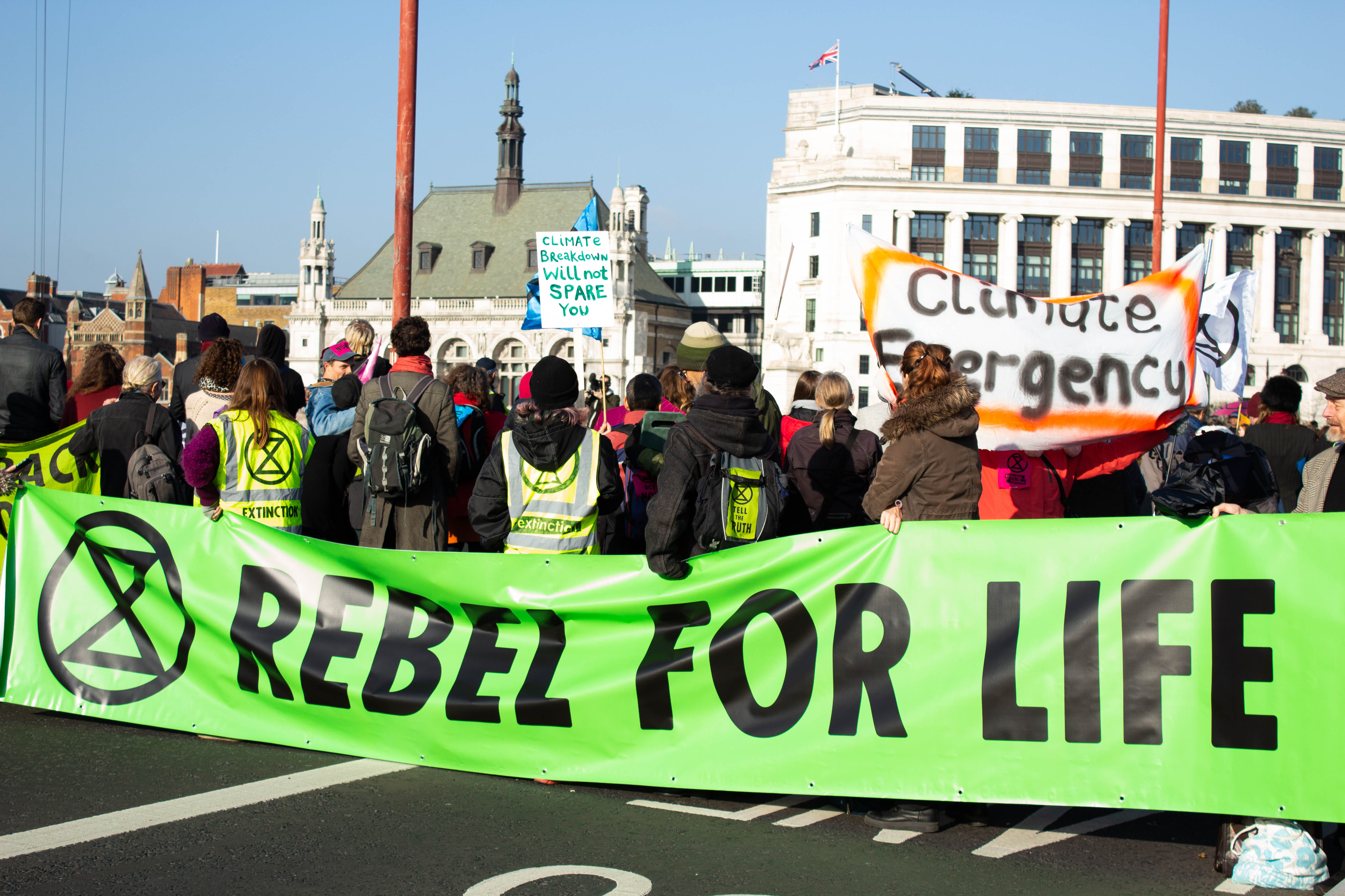 Extinction Rebellion. Banner "Rebel for life".